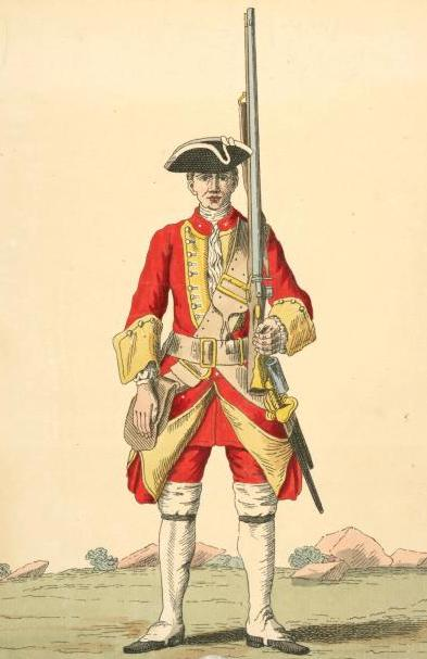 Soldier of the 10th regiment (1742)